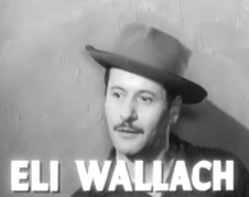 Cropped screenshot of Eli Wallach from the film Baby Doll